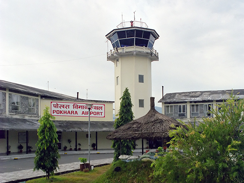 Pokhara Airport, Nepal